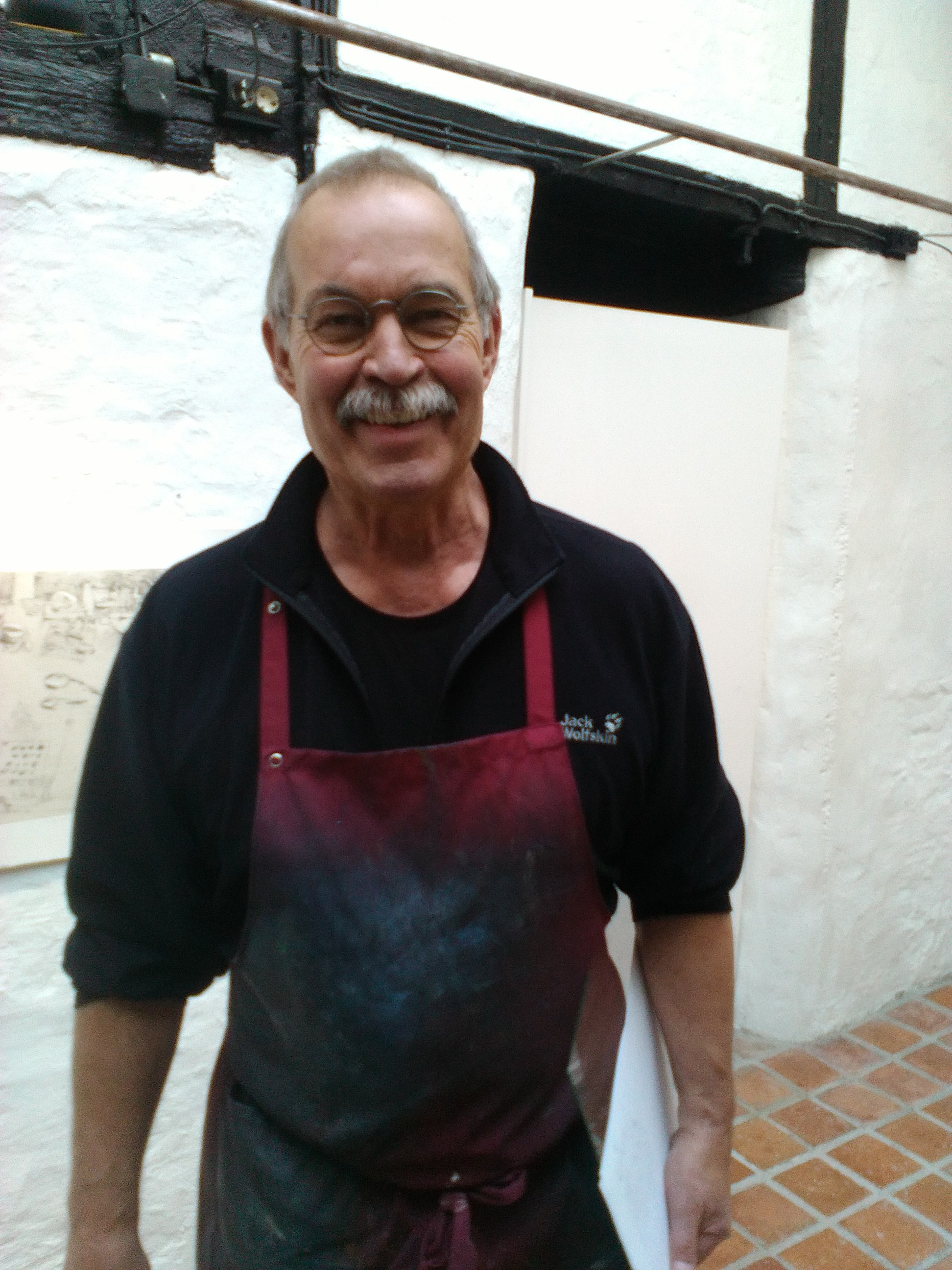 Otto Beckmann, painter